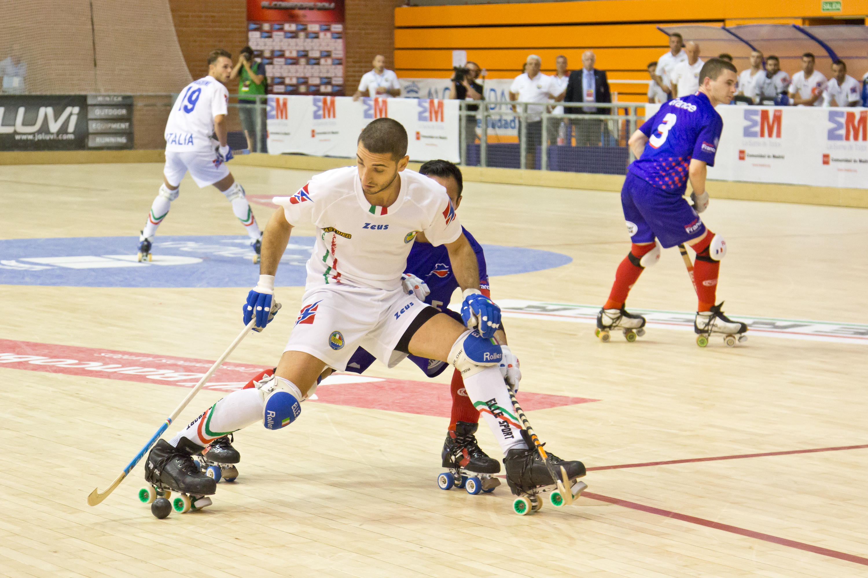 France vs Italy, 2014 CERH European Championship.